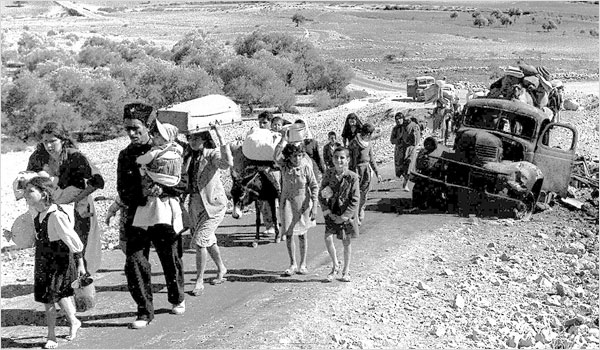 Palestine refugees (British Mandate of Palestine - 1948). "Making their way from Galilee in October-November 1948"